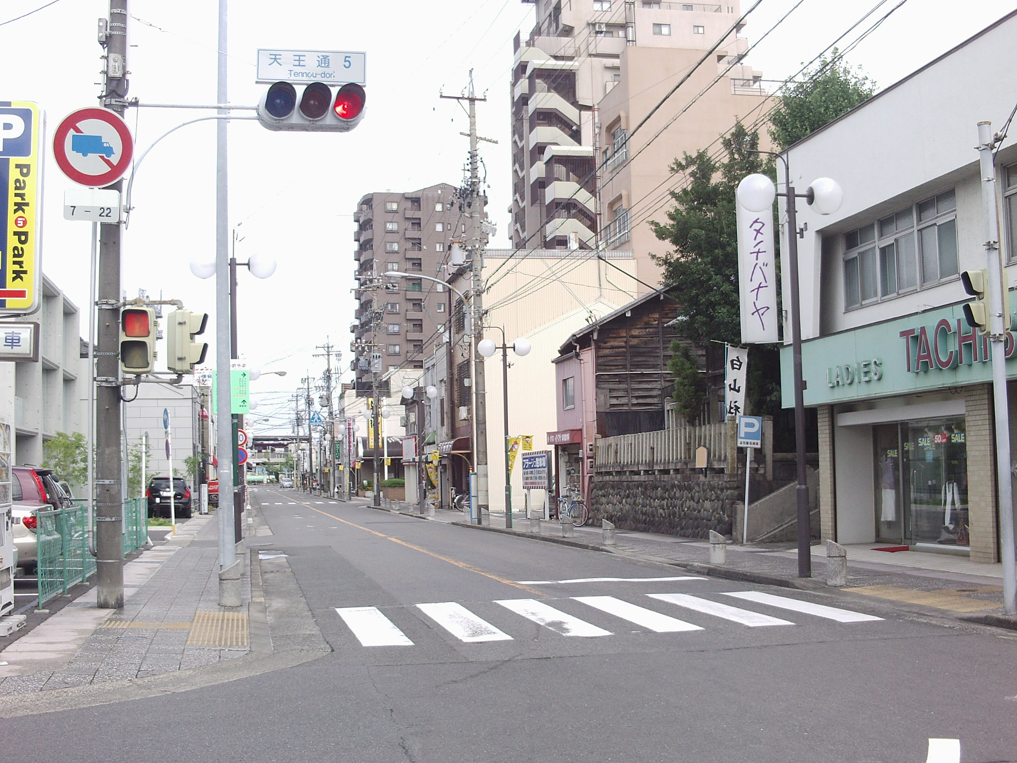 Aichi prefectural road No.138 in Tennodori 5-chome, Tsushima, Aichi.